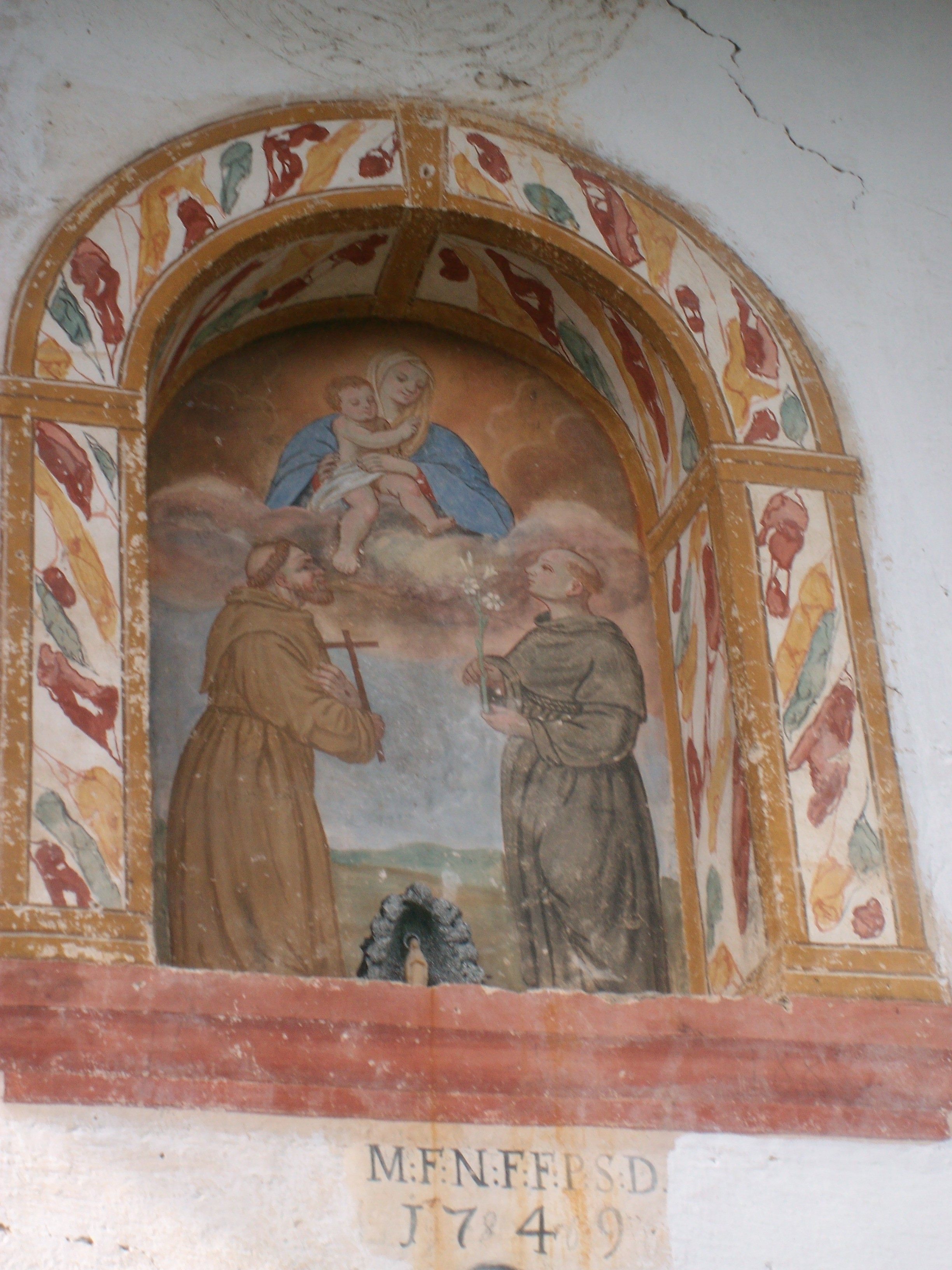 A devotional fresco on a casèra in Solàn